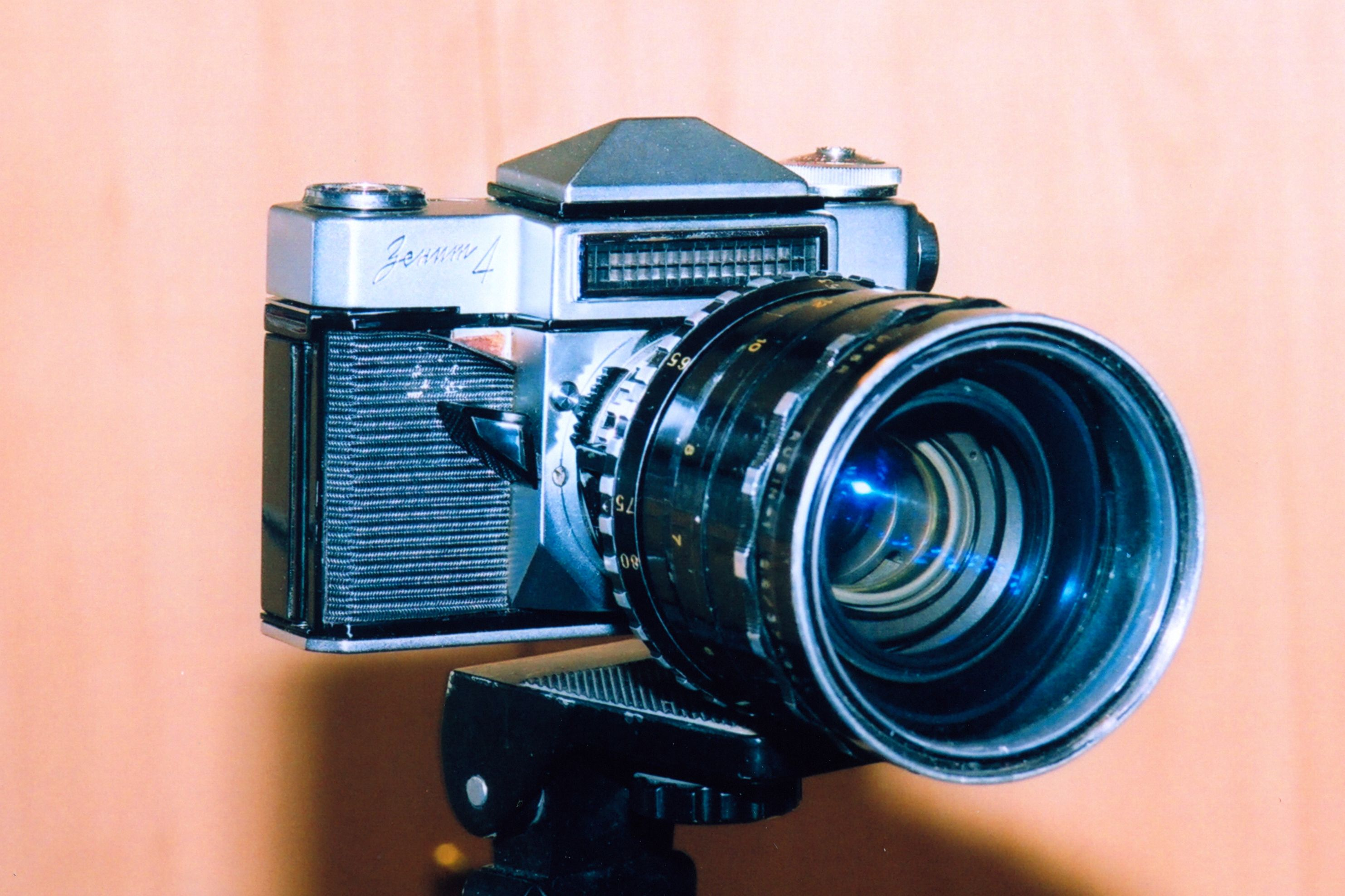 Zenit-4 camera with Rubin-1C zoom lens